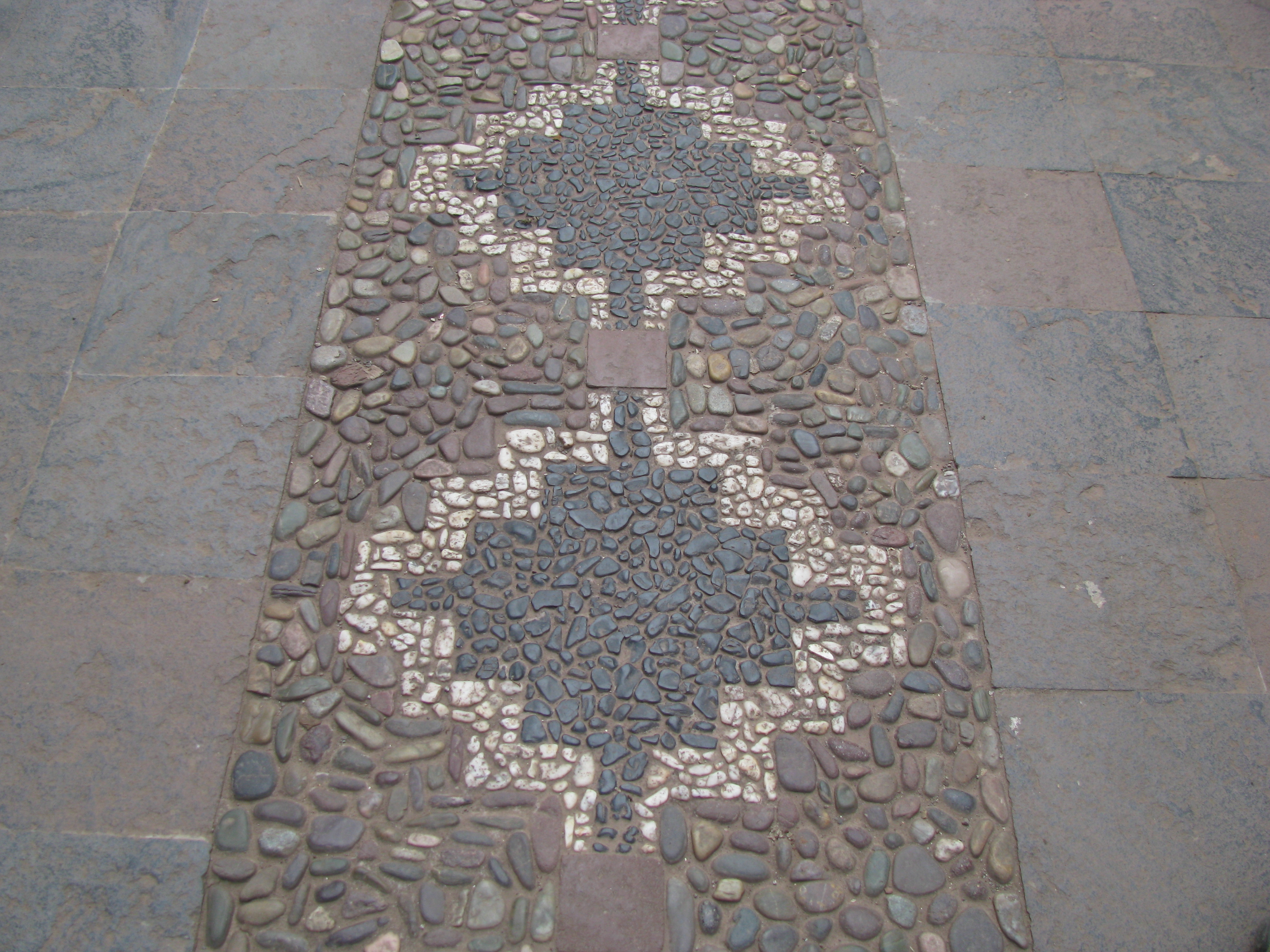 Cusco